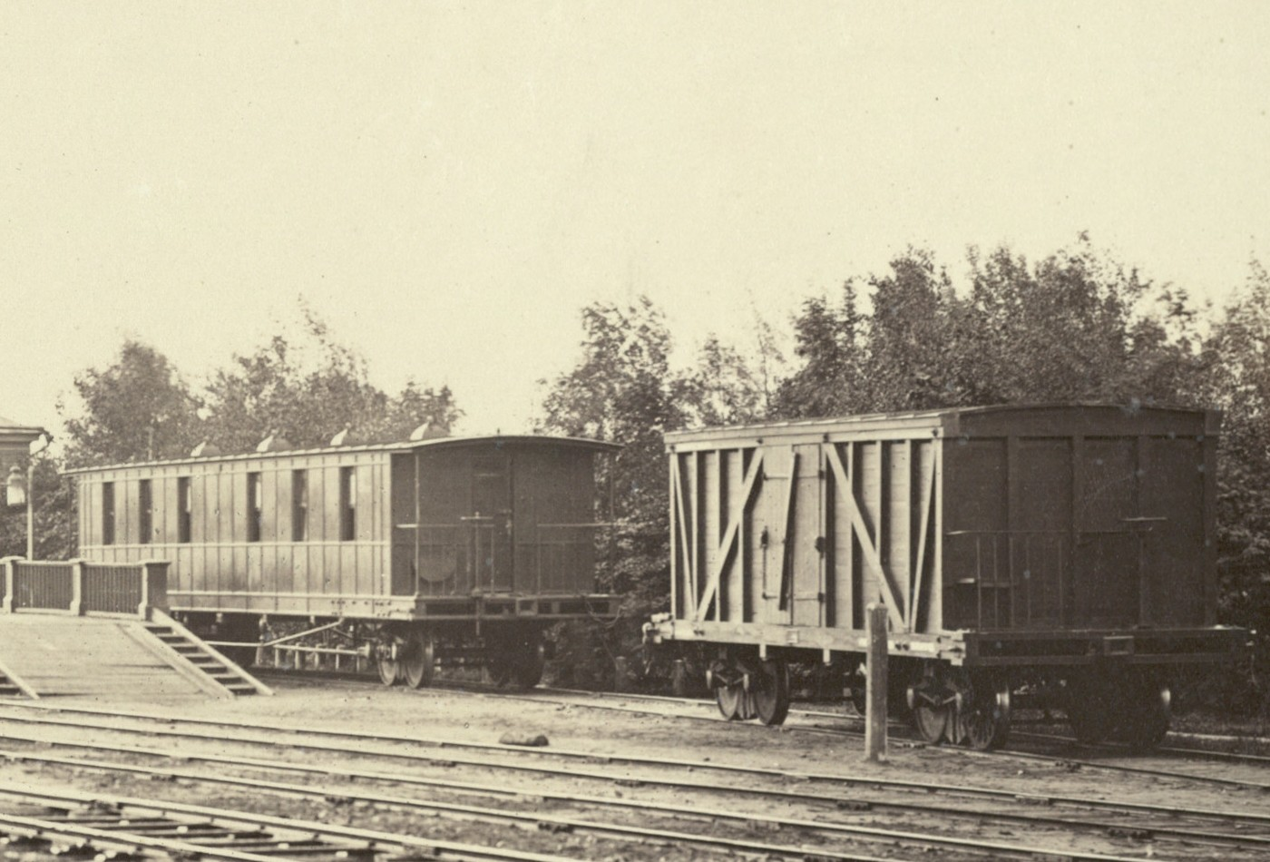 Coaches of Nikolaev Railway